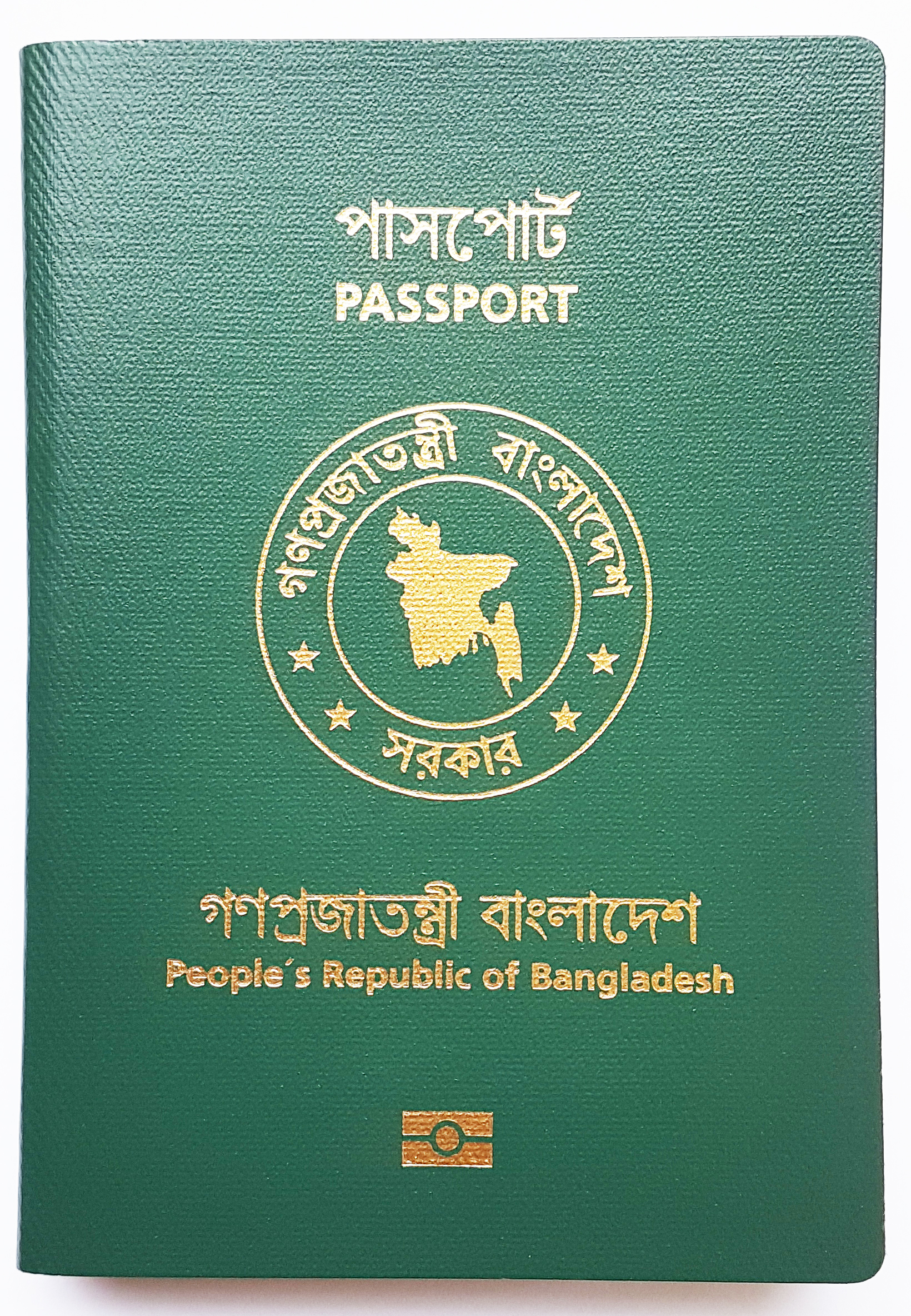 Bangladesh e-Passport Cover page